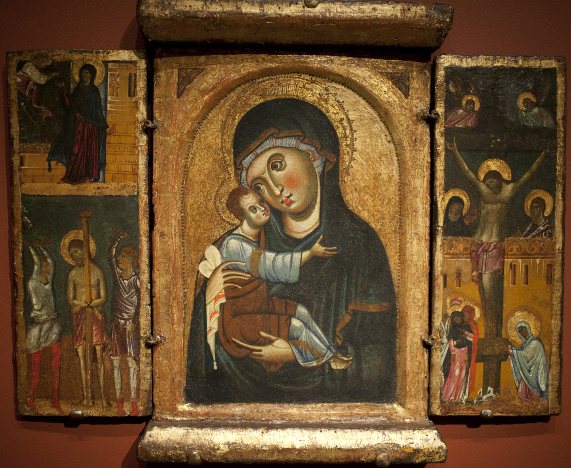 Triptych: Madonna and Child, Annunciation, Flagellation/Crucifixion, mid 13th century Tempera on wood panel 42.2 × 52.2 × 5.5 cm (16 5/8 × 20 9/16 × 2 3/16 in.) Gift of Mr. and Mrs. Jacob Reder in memory of their only son, Emmanuel Reder, who died in the invasion of Normandy in 1944, and an anonymous gift Place made: Florence, Italy y1958-126